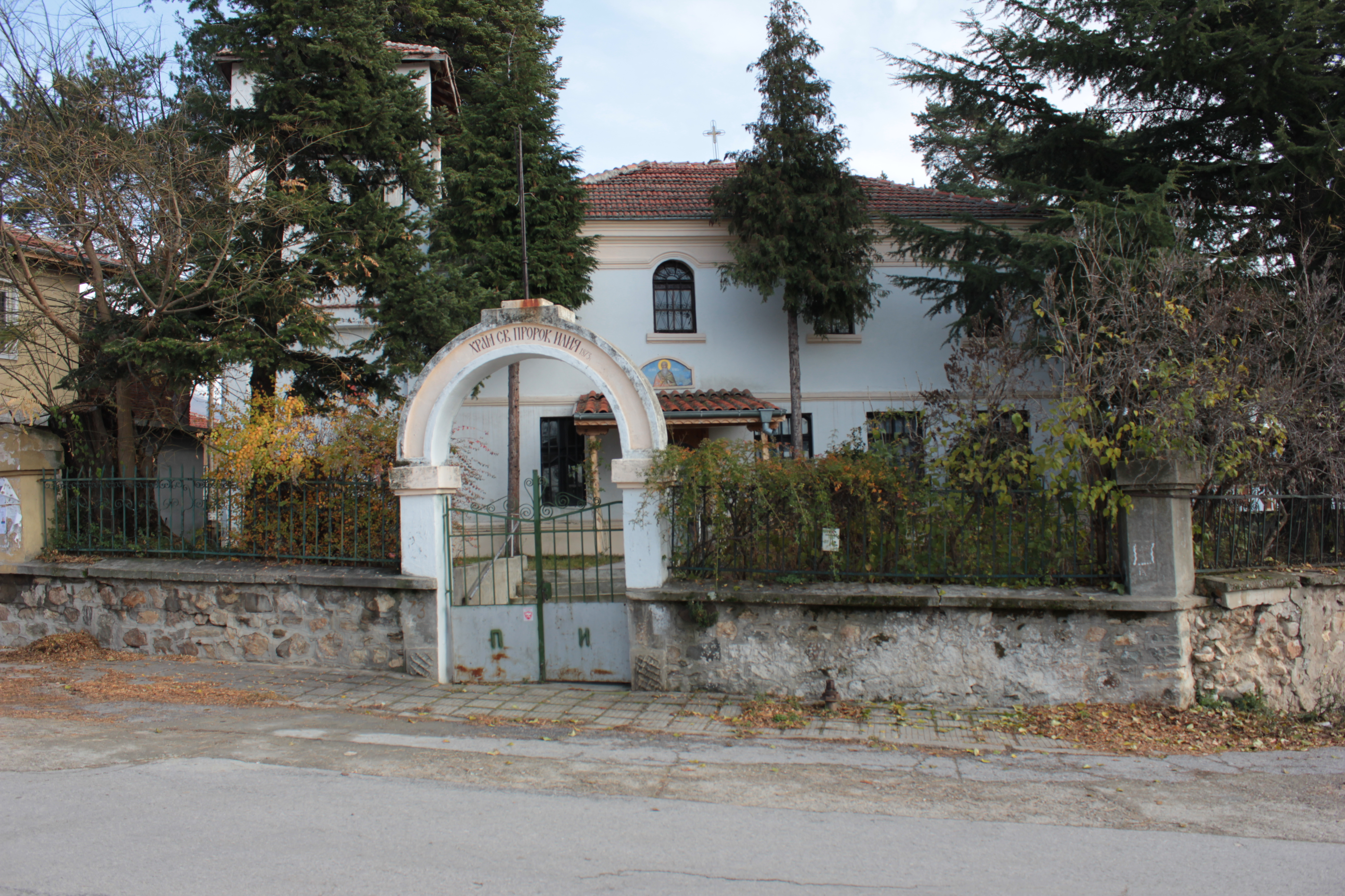 Smochevo Saint Elijah Church